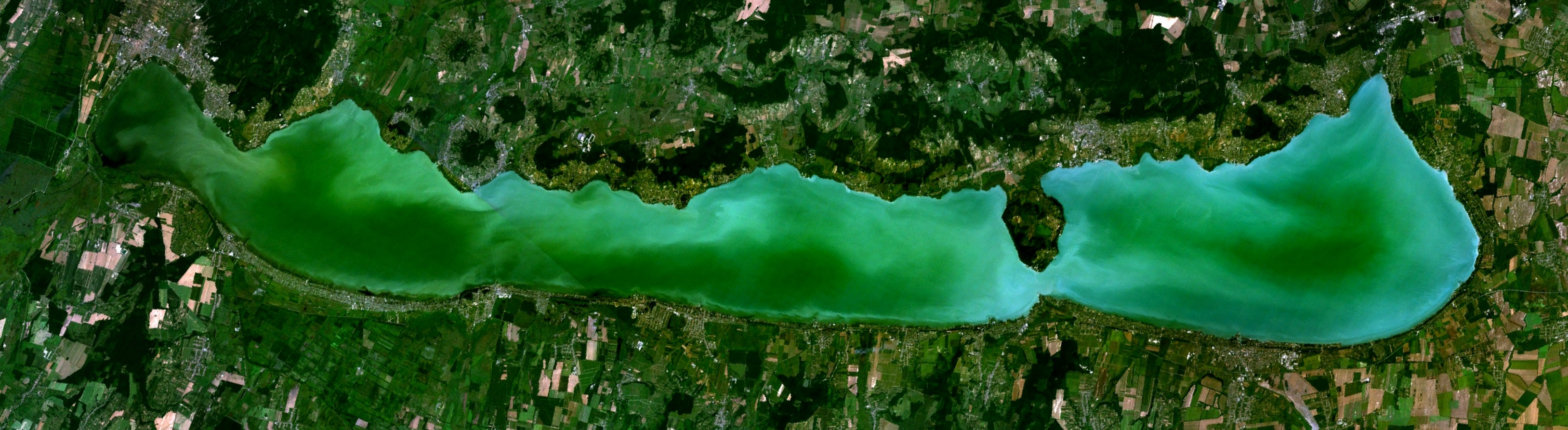 Satellite Image of Lake Balaton